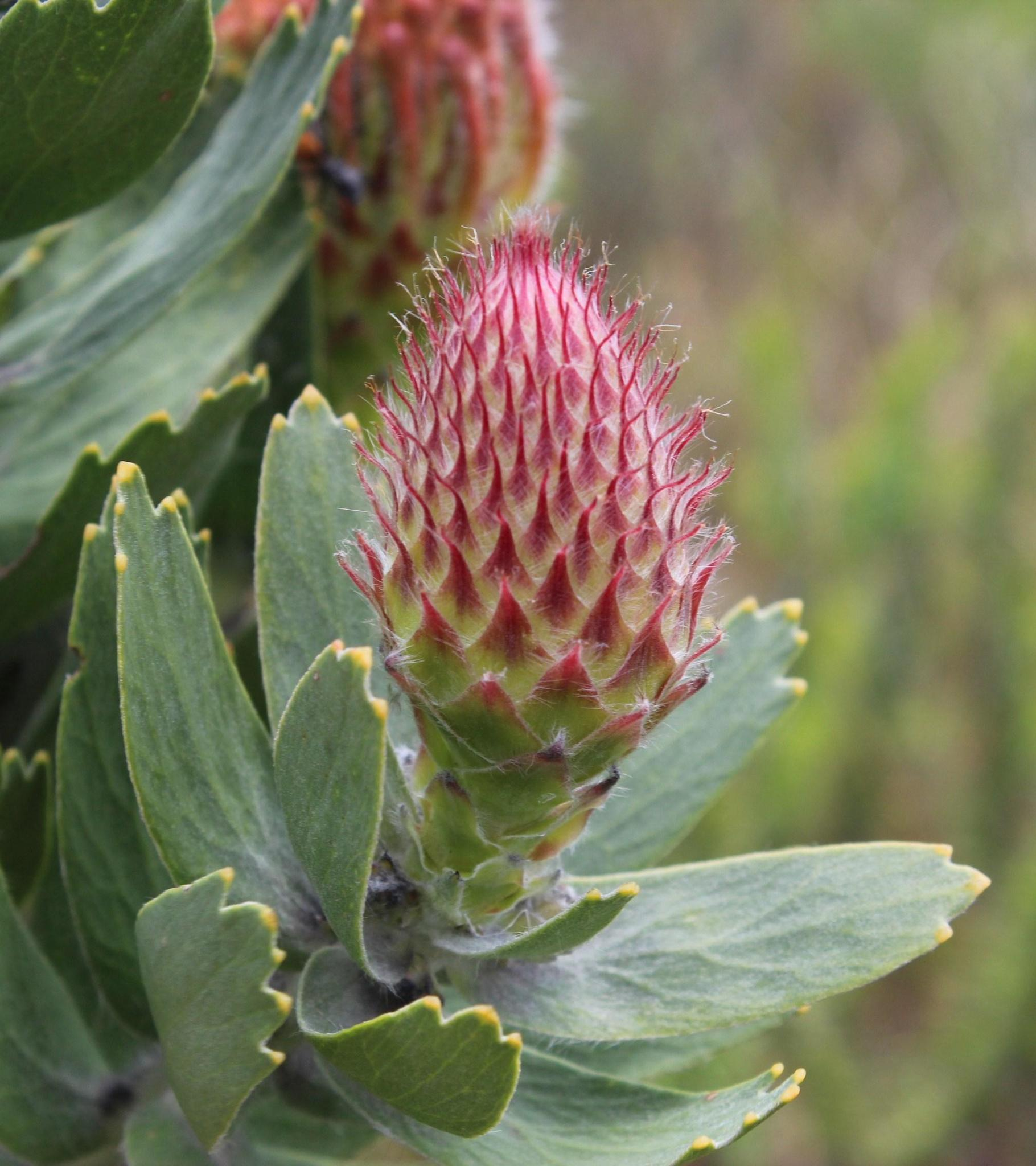 A silky-haired pincushion Leucospermum vestitum, flower head in bud showing the bracts and bracteoles, photographed by Tony Rebelo on Romans river, Tulbagh County, Western Cape province of South Africa